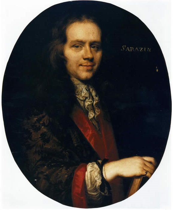 The french-canadien physician Michel Sarrazin (1659-1734)